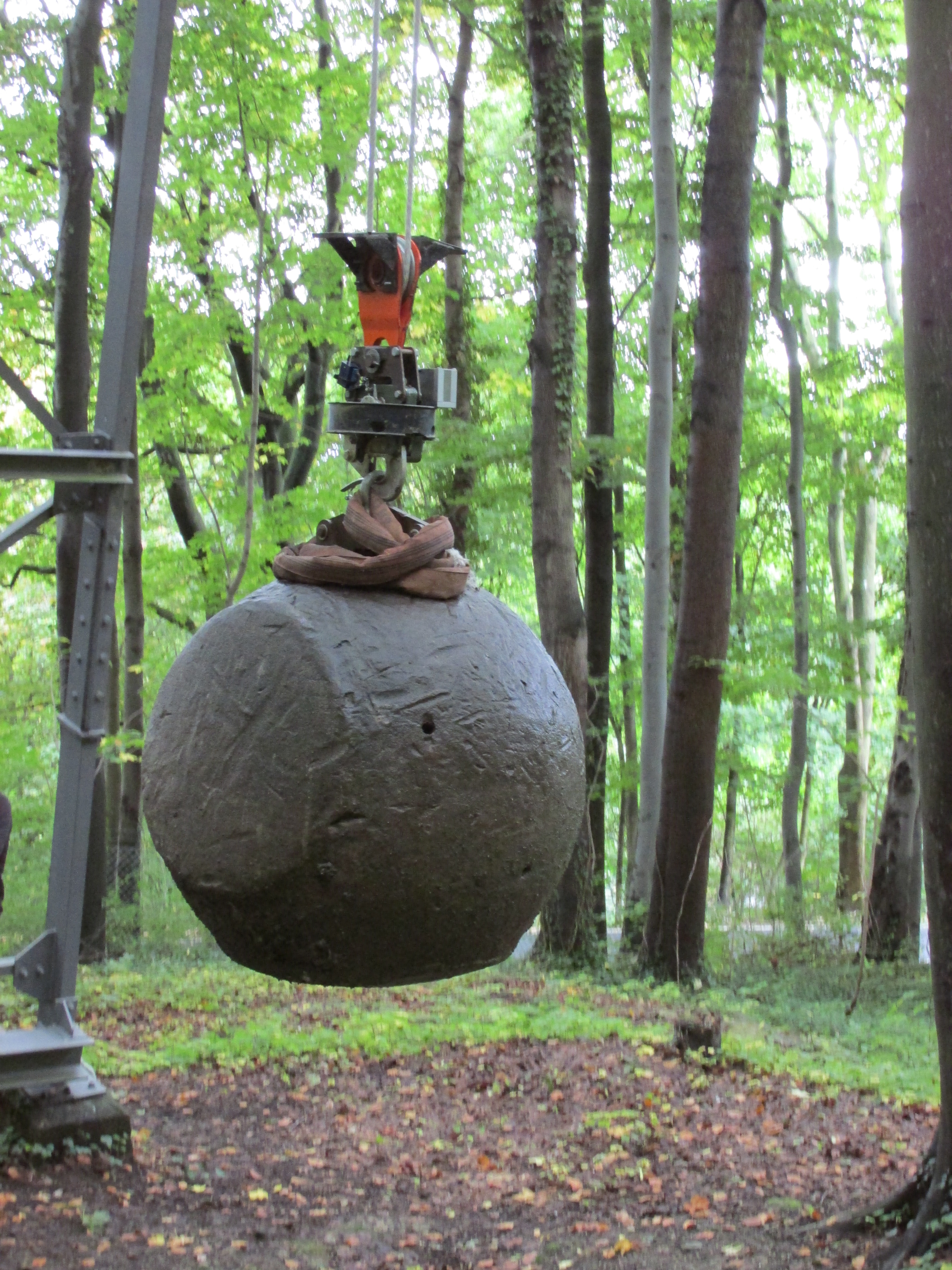 Mintrop ball is prepared, Göttingen, Germany check usage